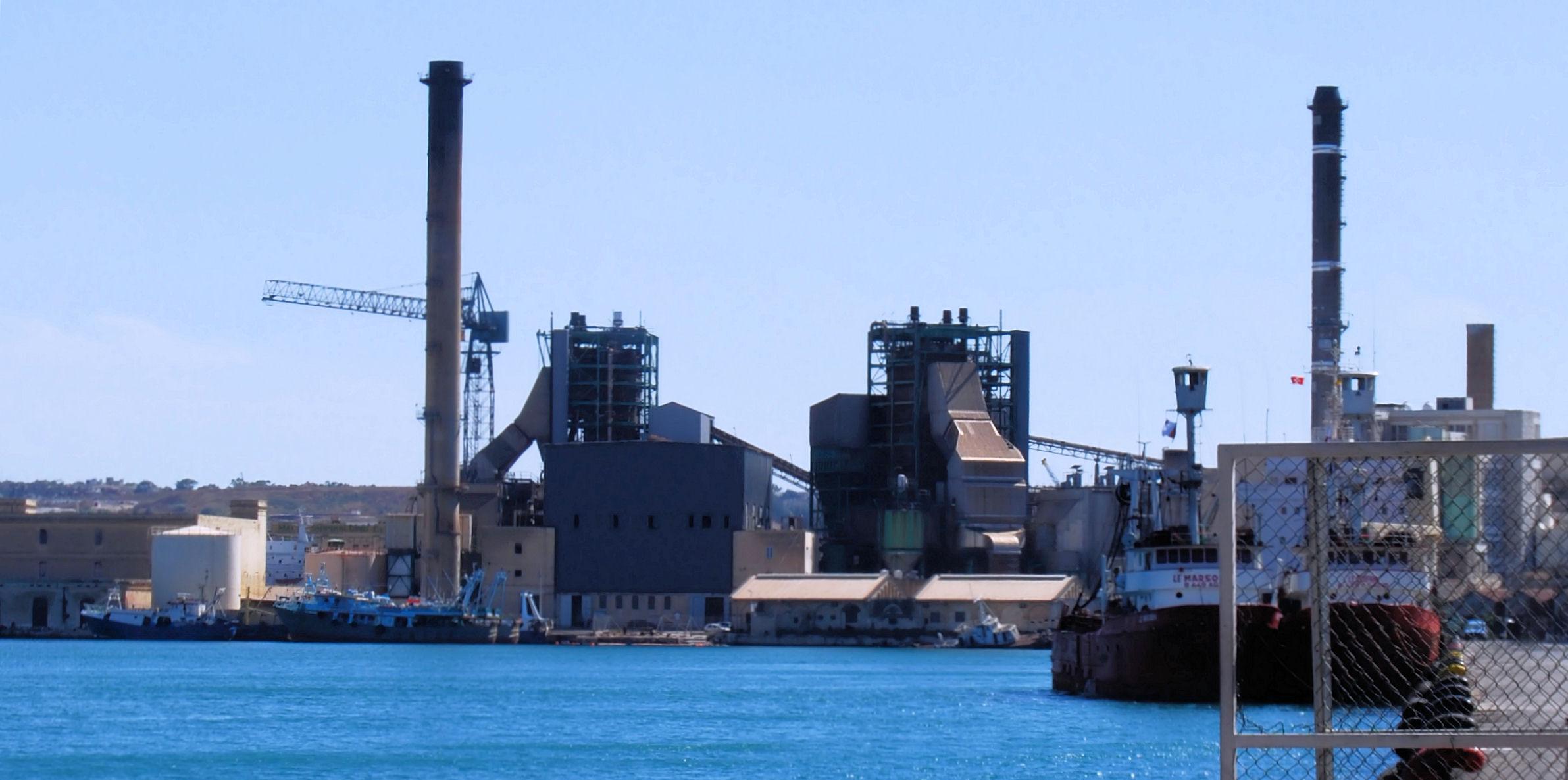 The oil-fired Marsa Power Station near Marsa at the end of Grand Harbour, Malta with a maximal power of 267 MW. It was connected to electricity grid in 1966 and is operational since then.